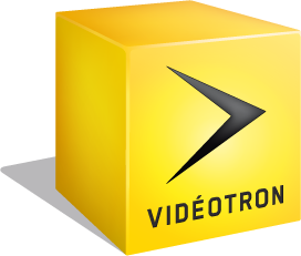 Logo of Vidéotron